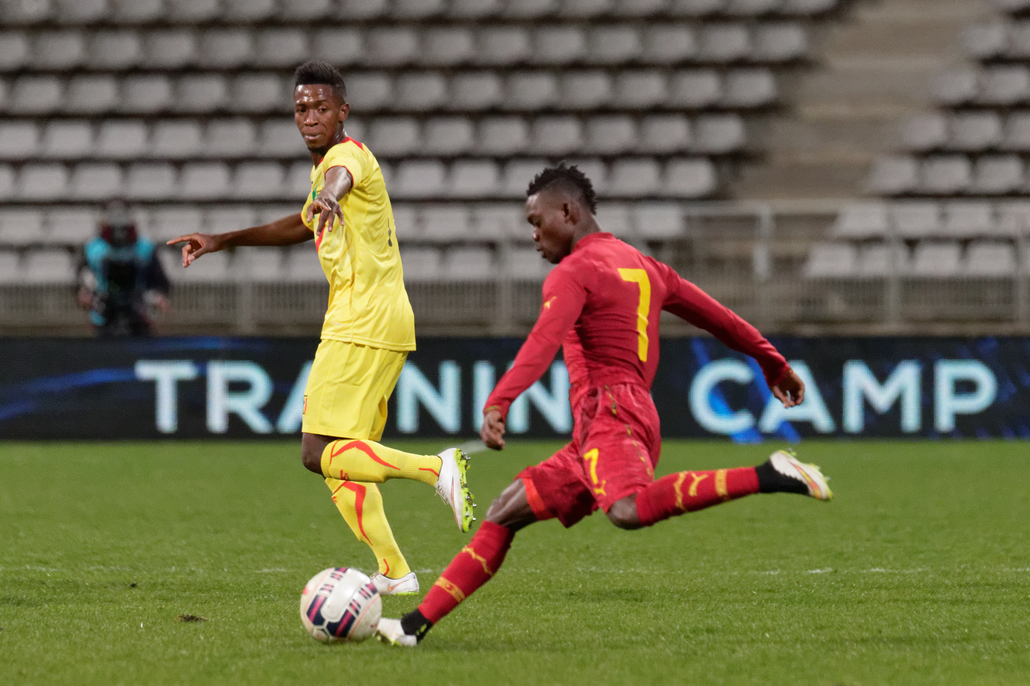 Mali vs Ghana, exhibition game at Paris, 31st March 2015.